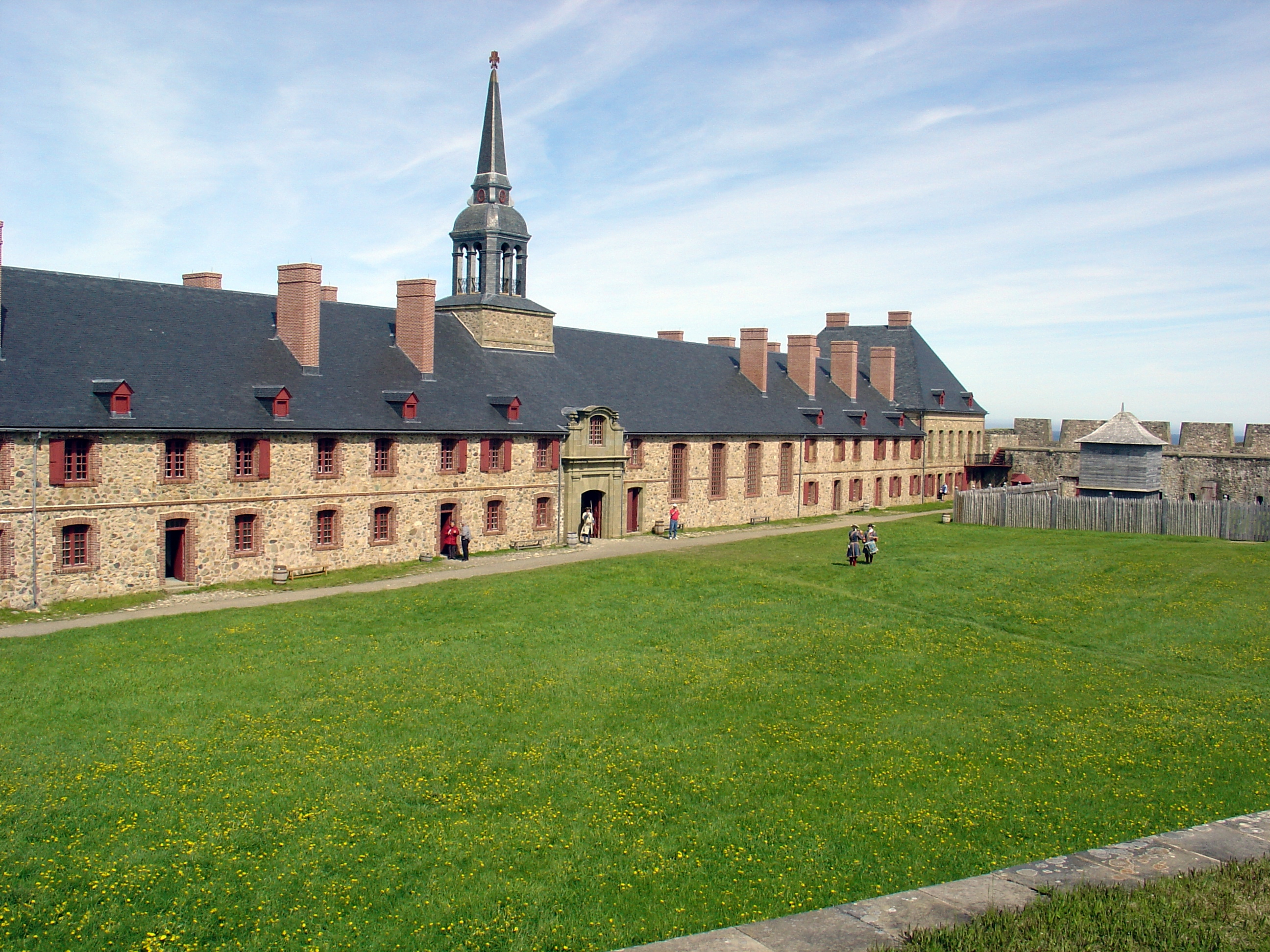 Please, have this description accessible to all by translating it in different languages.